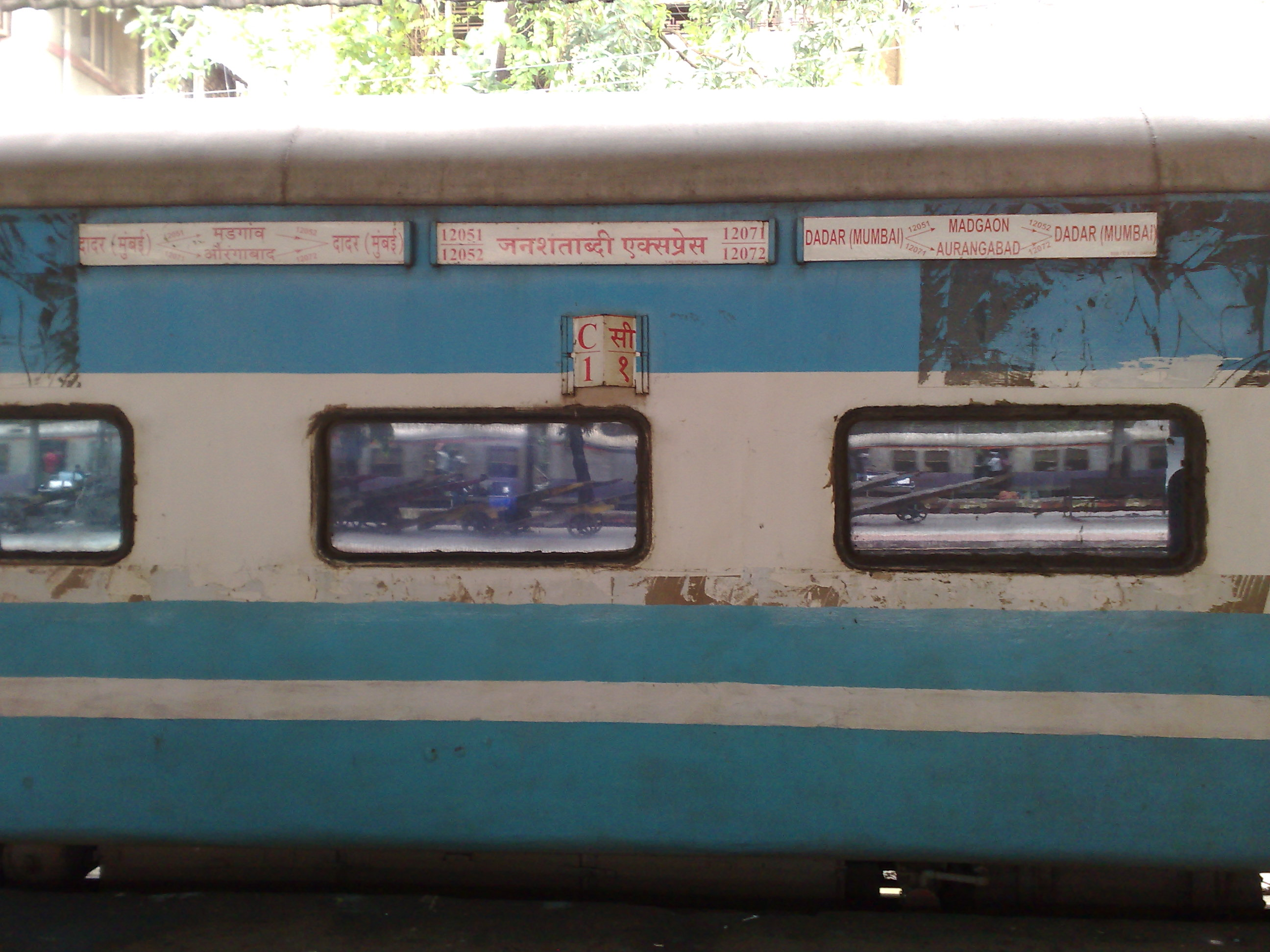 12072 Janshatabdi Express AC coach